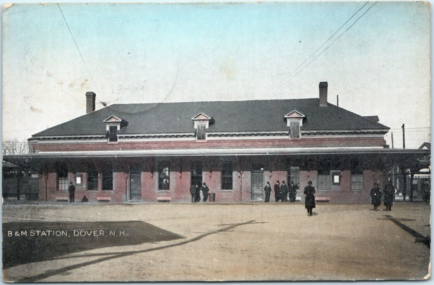 Early divided back postcard of Dover station, postmarked 1909